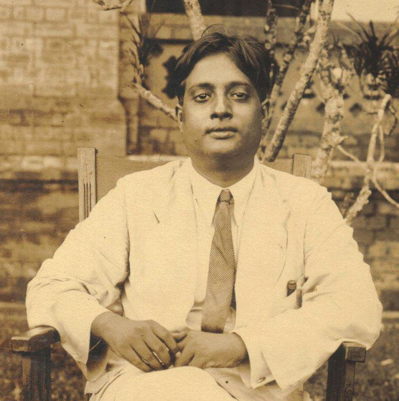 Satyendra Nath Bose at Dacca University (now Dhaka) in Bangladesh in the 1930s..